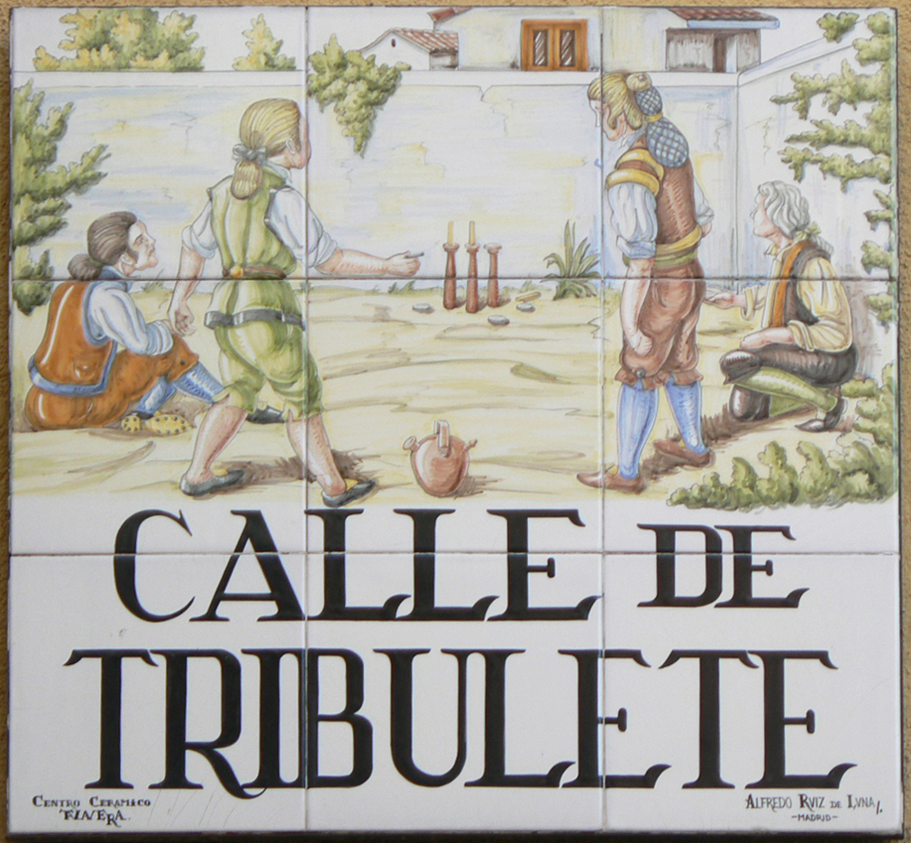 Sign of Calle de Tribulete (street, Centro district) in Madrid (Spain).